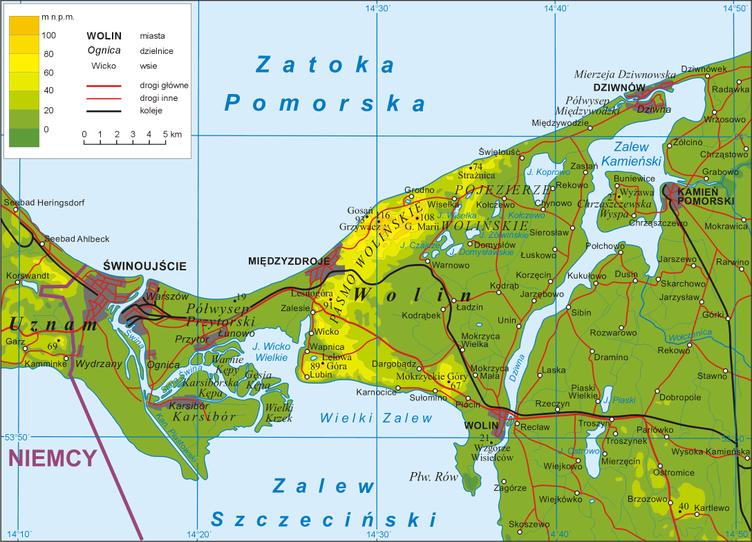 Map of Wolin island, województwo zachodniopomorskie (West Pomeranian Voivodship), Poland.